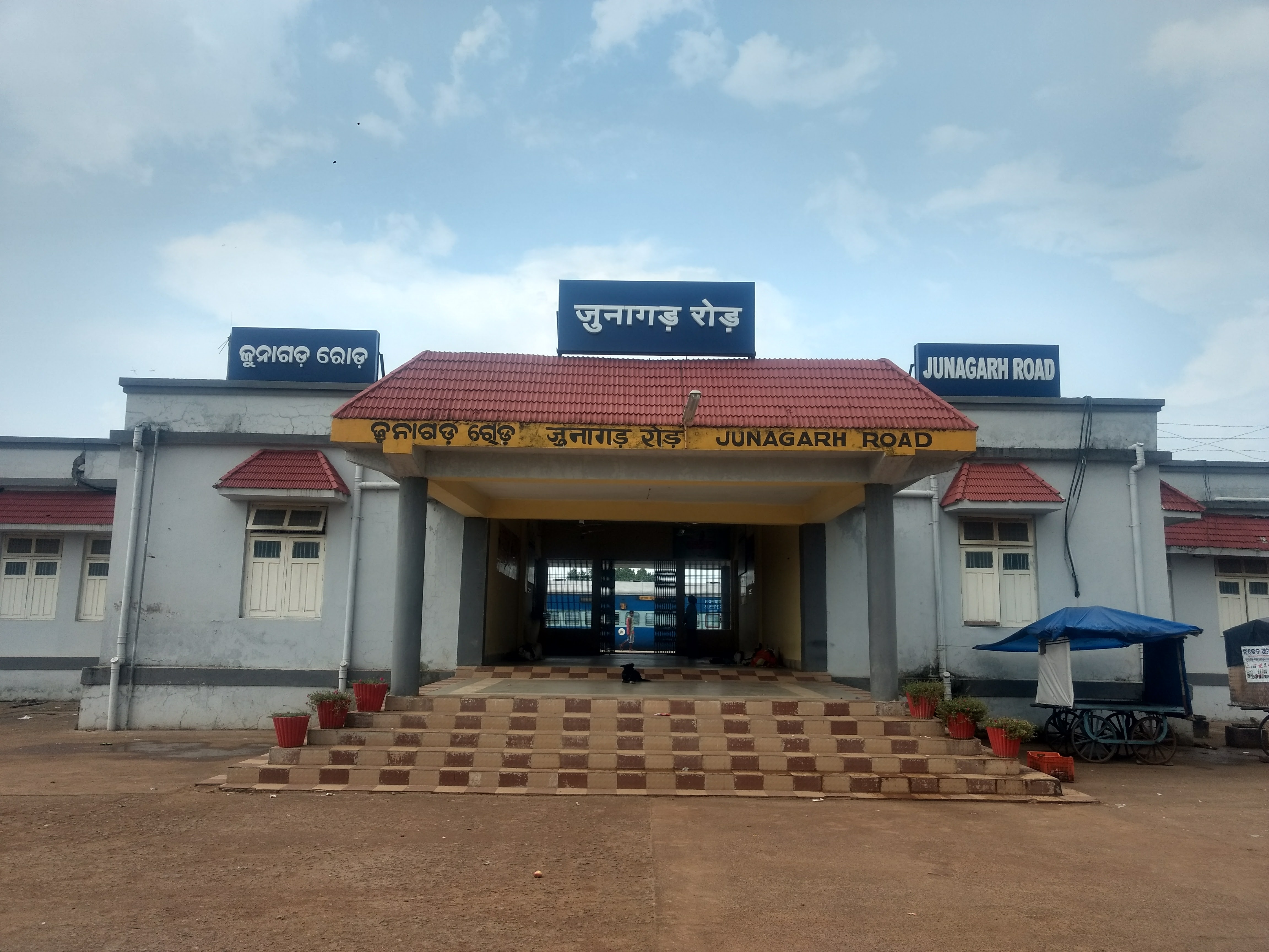 Front entry point of Junagarh Road railway station